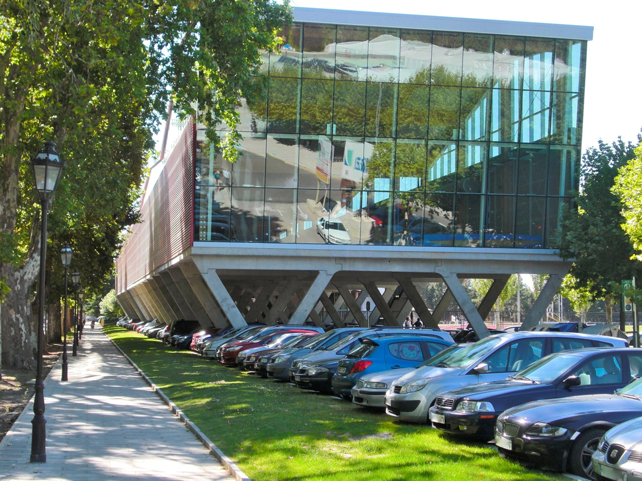 University of Burgos sports complex entrance